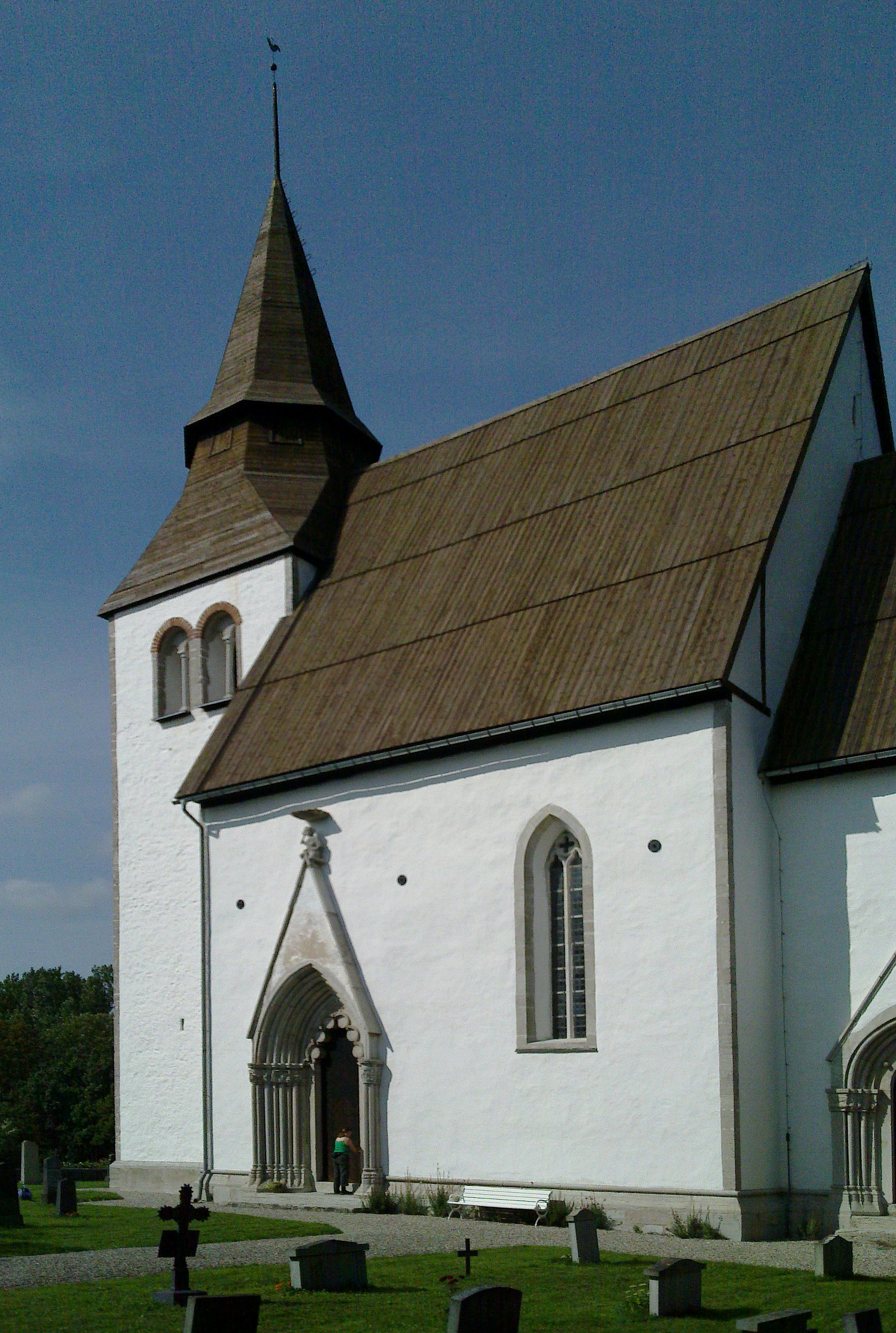 Church of Hörsne, Gotland, Sweden